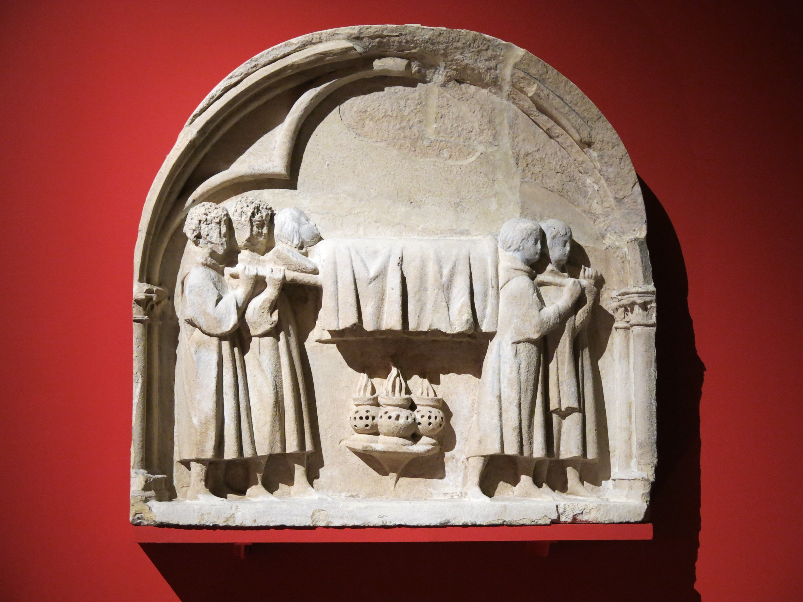 Funeral procession of Louis de France (1244-1260), son of the French king Saint-Louis. Abbaye de Royaumont, then reused in the cemetery of père Lachaise for the grave of Héloïse et Abélard (!), then musée Carnavalet.